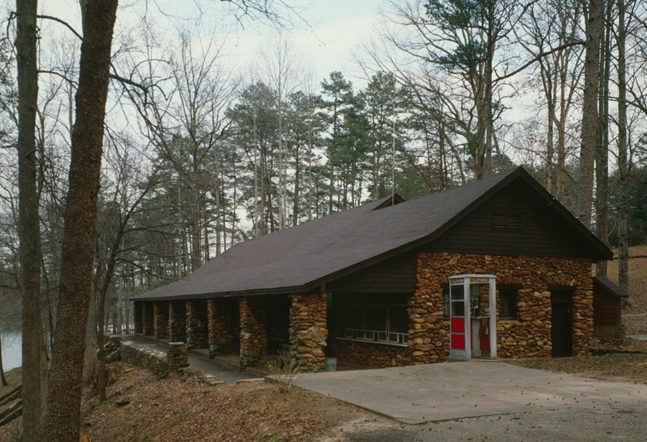 Paris Mountain State Park, Bathhouse, Paris Mountain State Park, off SC Route 253, Greenville vicinity (Greenville, Carolina) cropped This file comes from the Historic American Buildings Survey (HABS), Historic American Engineering Record (HAER) or Historic American Landscapes Survey (HALS). These are programs of the National Park Service established for the purpose of documenting historic places. Records consist of measured drawings, archival photographs, and written reports. When reusing please credit: Library of Congress, Prints & Photographs Division, sc0741 This tag does not indicate the copyright status of the attached work. A normal copyright tag is still required. See Commons:Licensing. This work is in the public domain in the United States because it is a work prepared by an officer or employee of the United States Government as part of that person’s official duties under the terms of Title 17, Chapter 1, Section 105 of the US Code. Note: This only applies to original works of the Federal Government and not to the work of any individual U.S. state, territory, commonwealth, county, municipality, or any other subdivision. This template also does not apply to postage stamp designs published by the United States Postal Service since 1978. (See § 313.6(C)(1) of Compendium of U.S. Copyright Office Practices). It also does not apply to certain US coins; see The US Mint Terms of Use. This file has been identified as being free of known restrictions under copyright law, including all related and neighboring rights. Object location34° 56′ 25″ N, 82° 23′ 39″ W